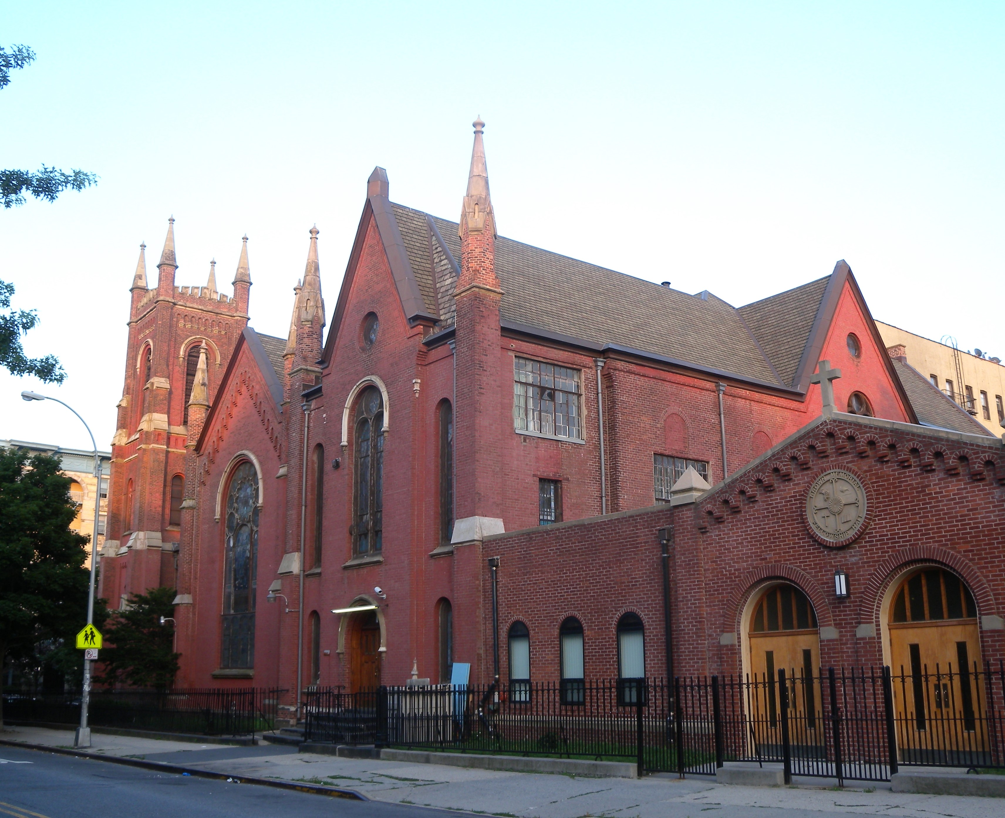 Looking east along Gates Avenue from Waverly Avenue at Brown Memorial Baptist Fellowship Hall and Church at sunset of a sunny day. Located in the Clinton Hill Historic District.